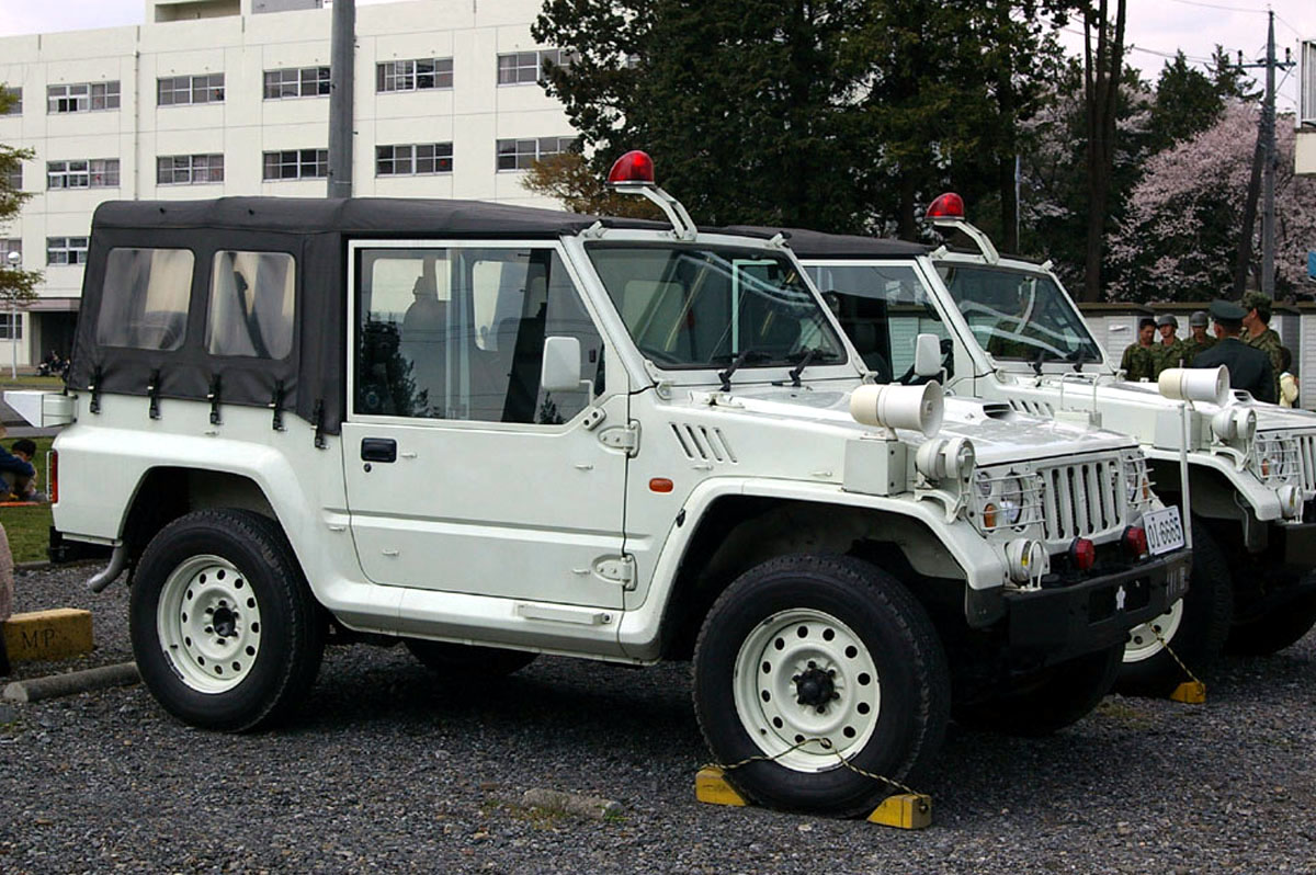 Taken by Los688,8-Apr-2007,JGSDF Camp-Utsunomiya.JGSDF Type73 (new) Kogata Truck,12th Br.MP.PD-self. ja:2007年4月8日、投稿者撮影。陸上自衛隊宇都宮駐屯地記念行事。新73式小型トラック。警務隊用。